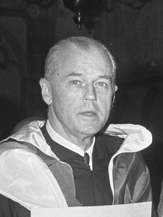 Photograph of Robert Van de Graaf. Honorary doctorate Utrecht University (the Netherlands), 19 April 1966